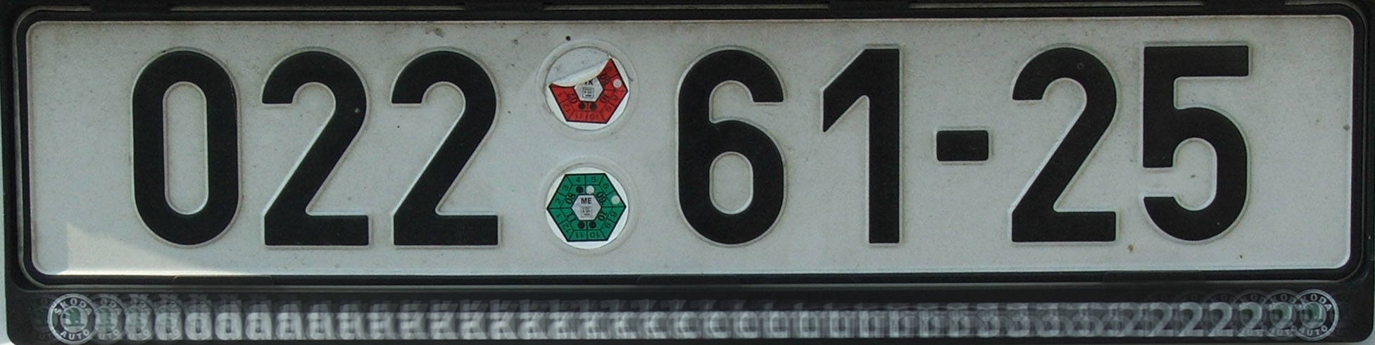 Military vehicle registration plate from Czechia - just numbers.